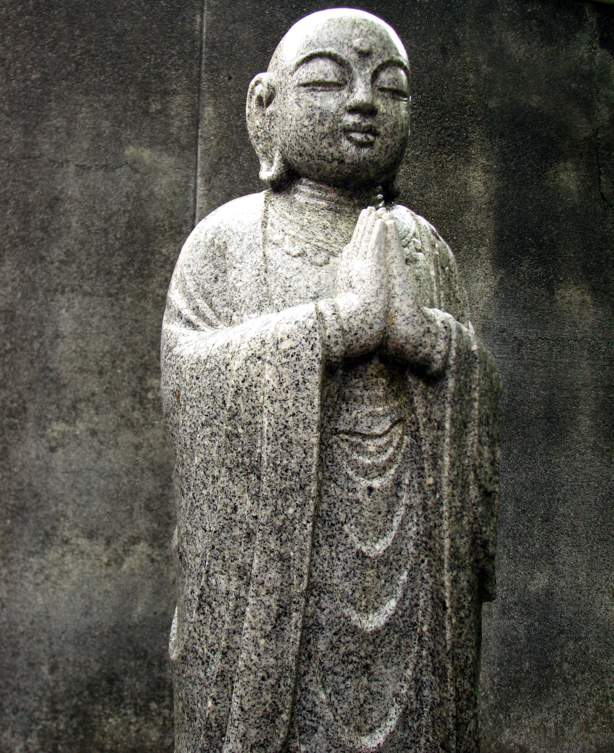 Looks like a Jizo, but without any of the traditional apparel....